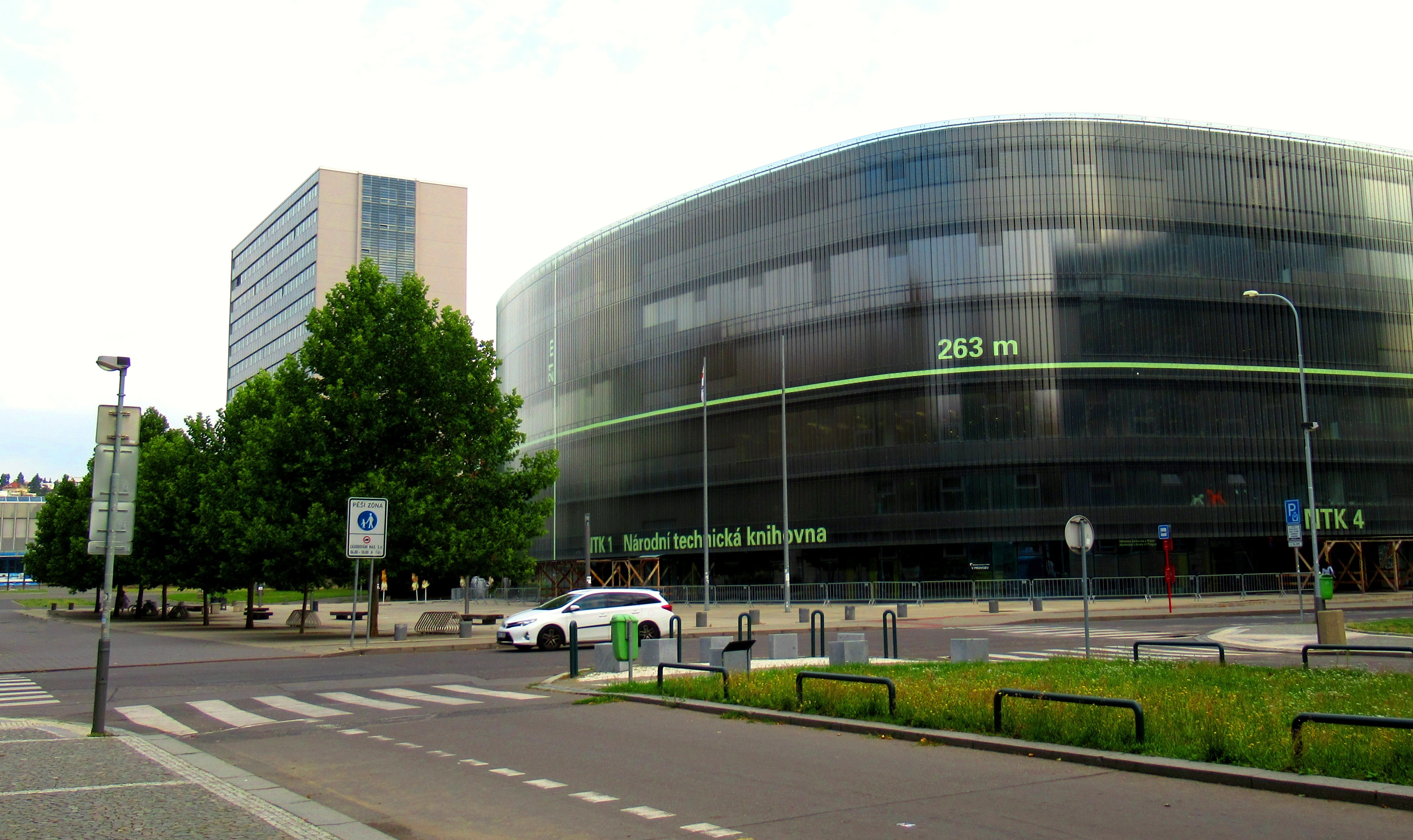 The Czech National Library of Technology (Národní technická knihovna, NTK) in Prague, view from south.